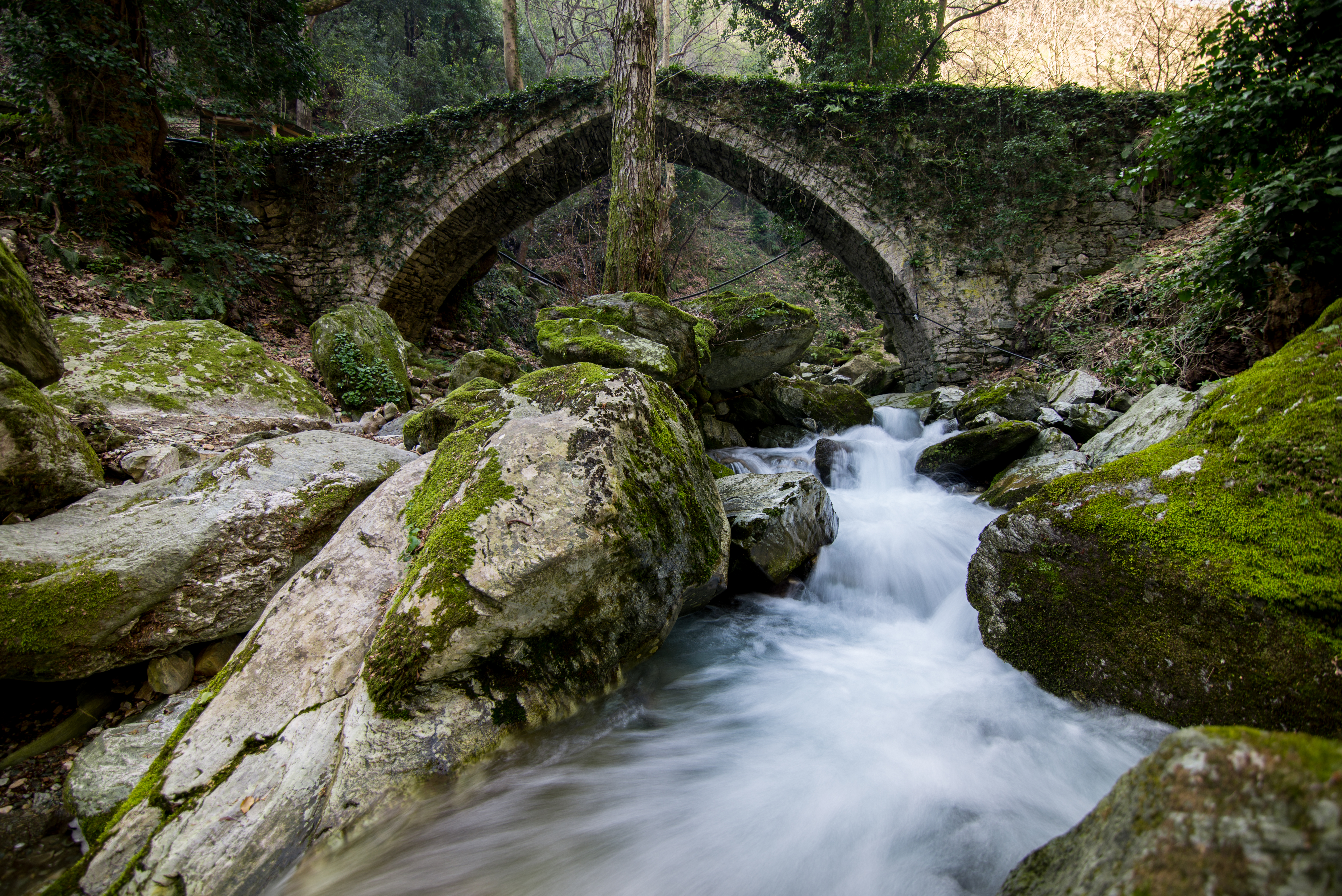 The stone arch bridge near Tsagarada, Pelion This is a photography of Natura 2000 protected area with ID GR1430001